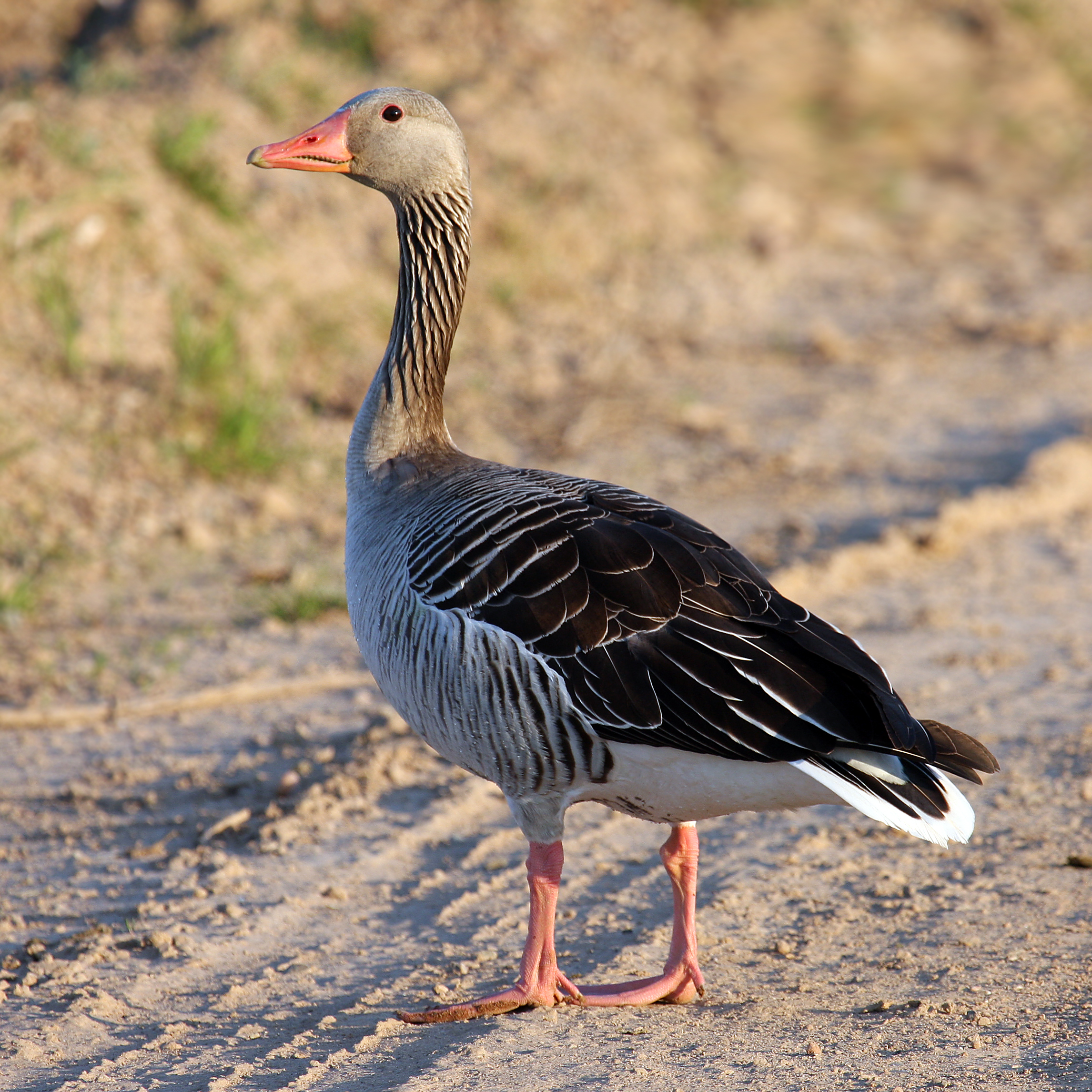 Greylag Goose